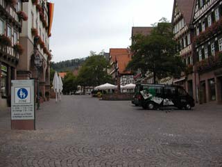 the Marketplace in Calw, Germany